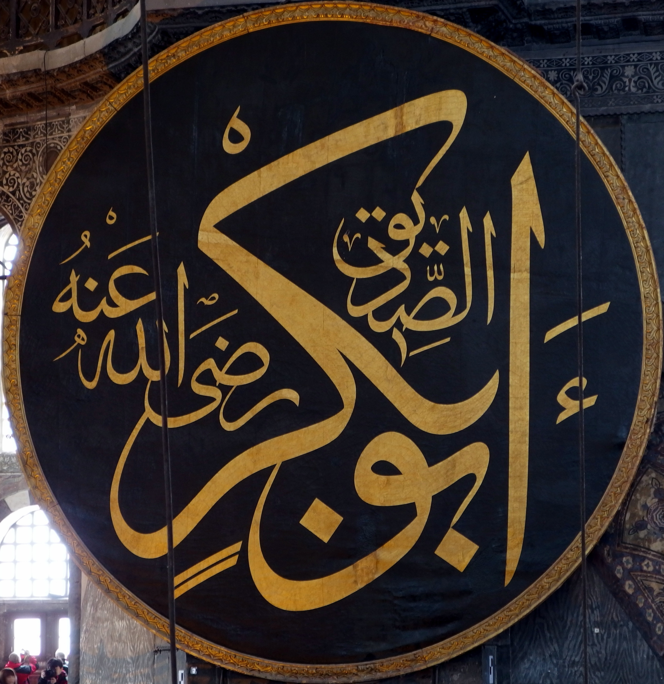 2013-12-03 in Istanbul